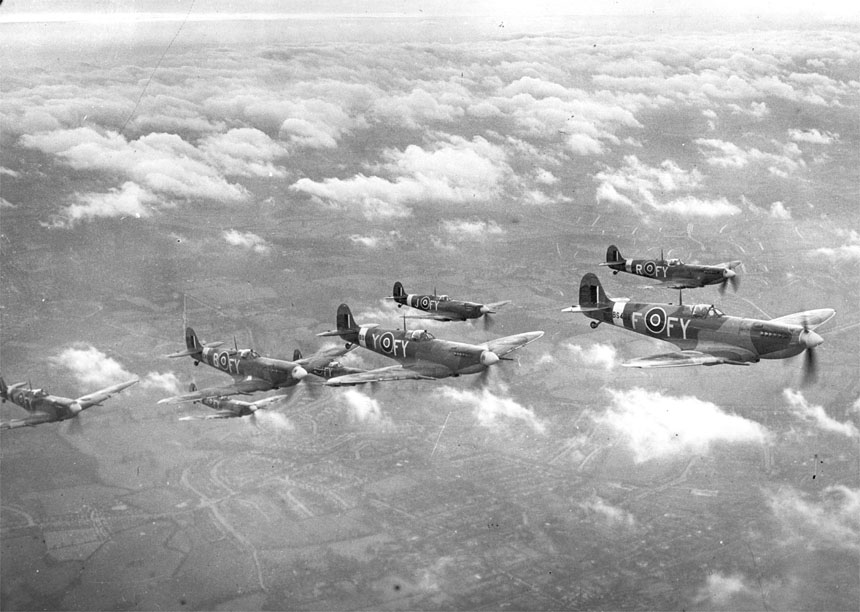 Eight Royal Air Force Supermarine Spitfire Mk IX of No. 611 Squadron (West Lancashire), based at RAF Biggin Hill, London (UK), in 1943. The photo was taken out of a Lockheed Hudson as a public relations photo over Biggin Hill. Aircraft FY-R was flown by squadron CO Squadron Leader Armstrong (an Australian), FY-V by Flying Officer Minto, FY-B by FO Lindsay and FY-K by FO Walmsley.